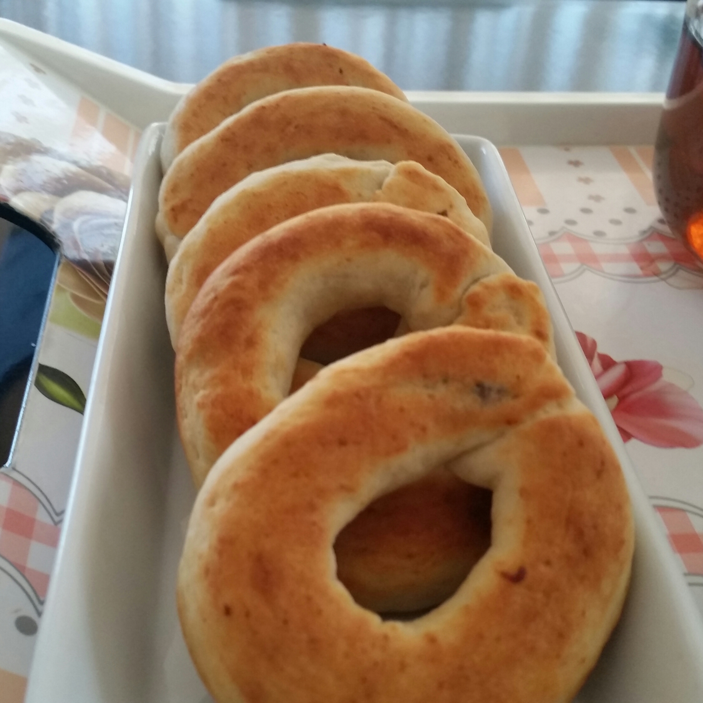 Halguane